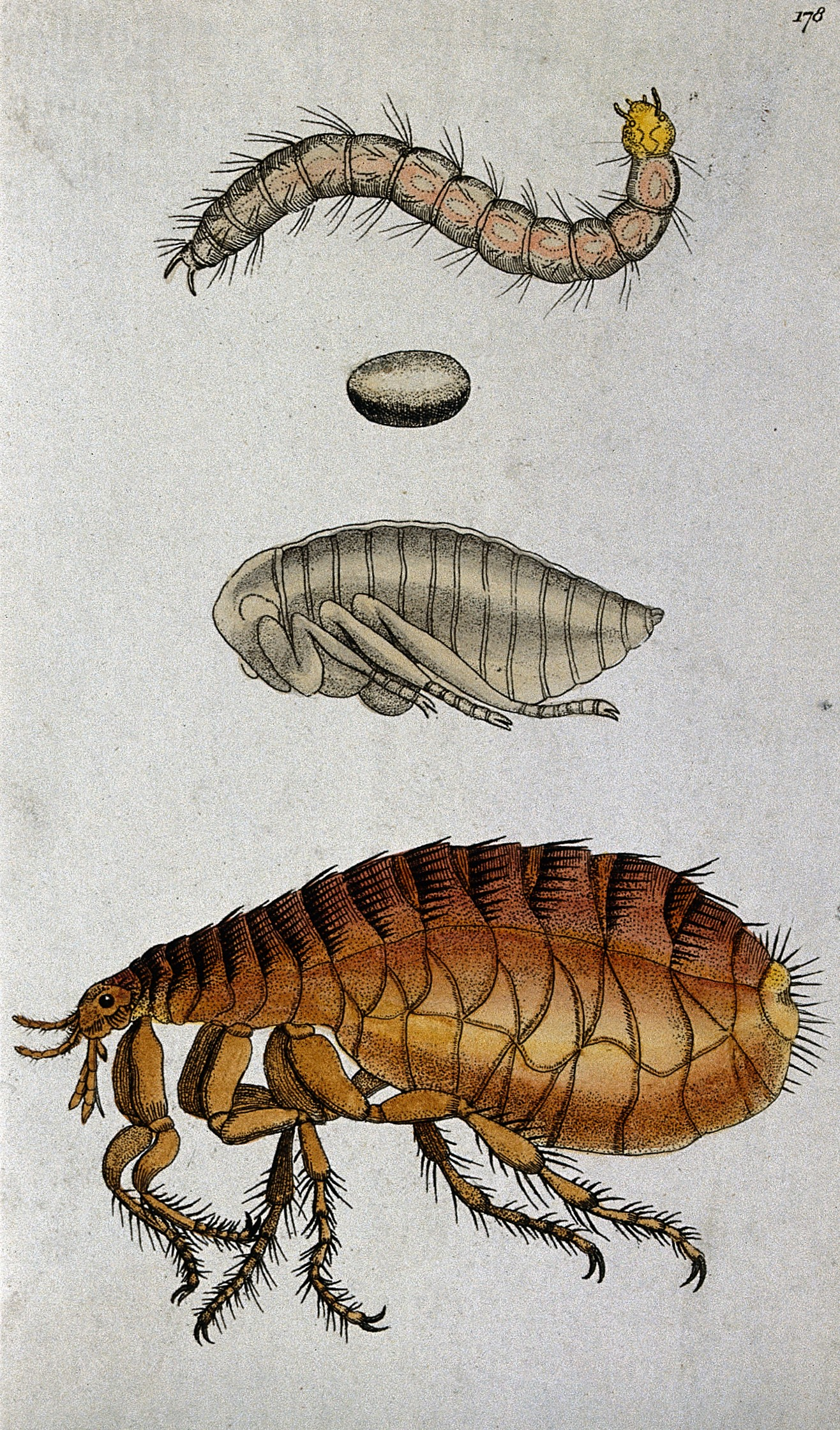 A dog flea (Ctenocephalides canis): adult, pupa, egg and larva. Coloured etching. Iconographic Collections